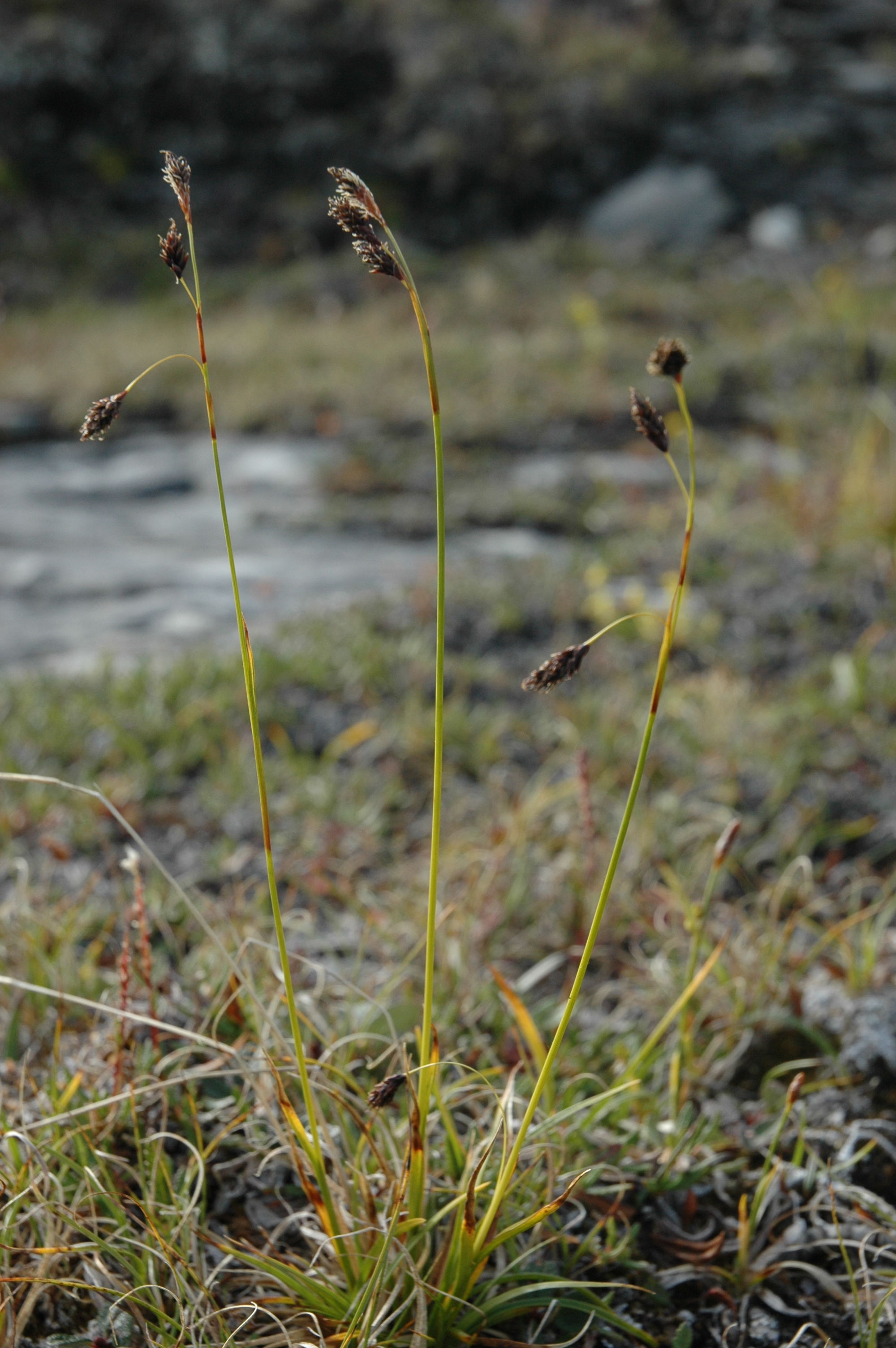 Carex fuliginosa subsp. misandra from Torne Träsk Sweden.